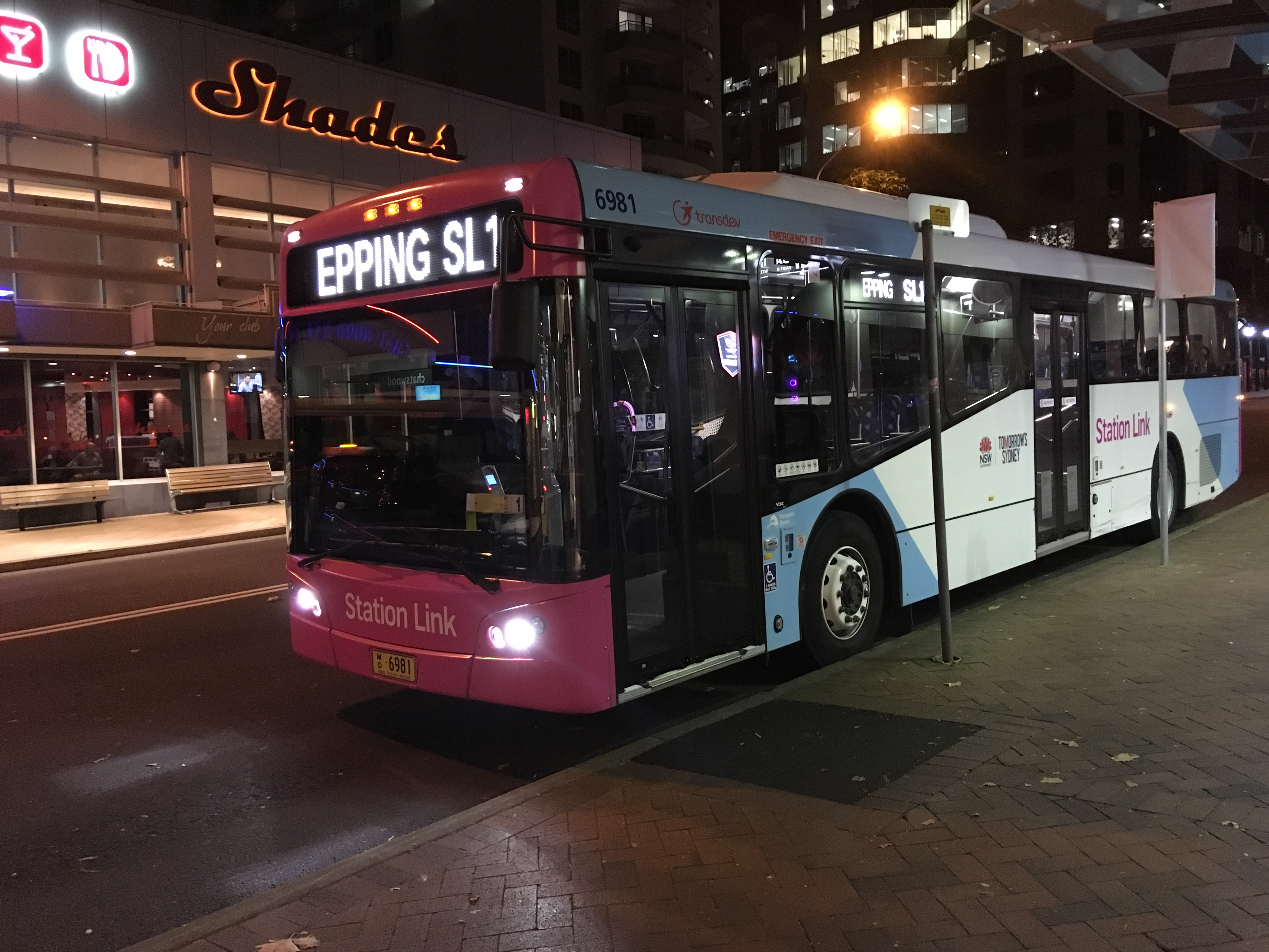 Station Link bus (Transdev m/o 6981) preparing to run SL1 at Chatswood Station, picture taken May 2019